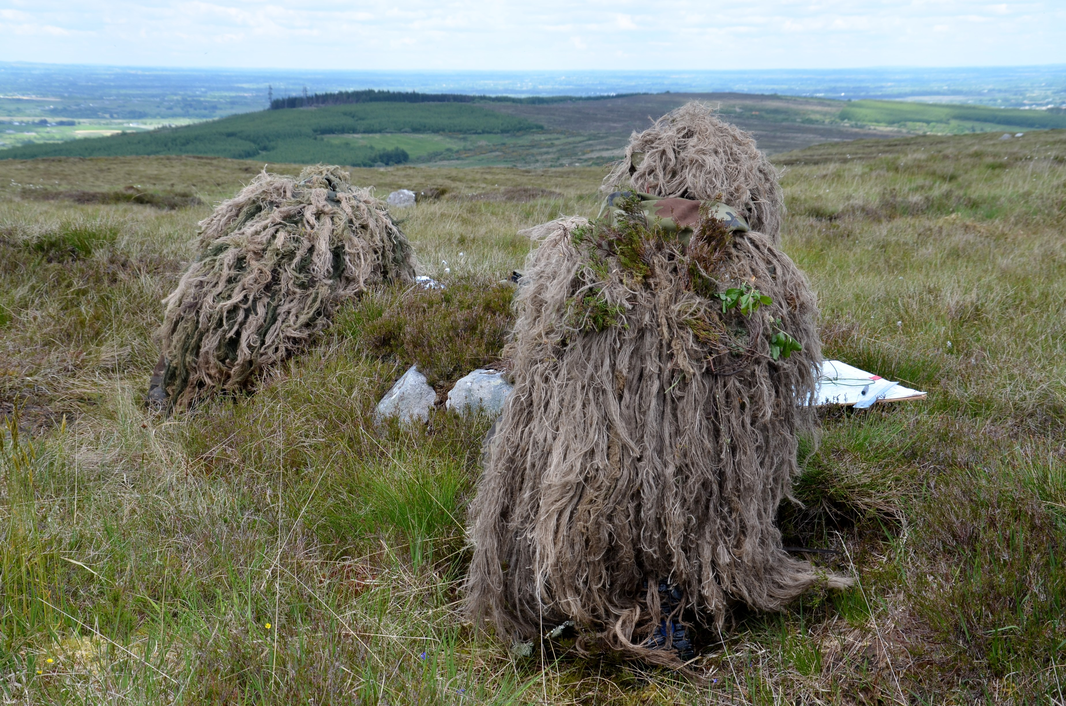 Two Irish Army snipers on a training exercise.